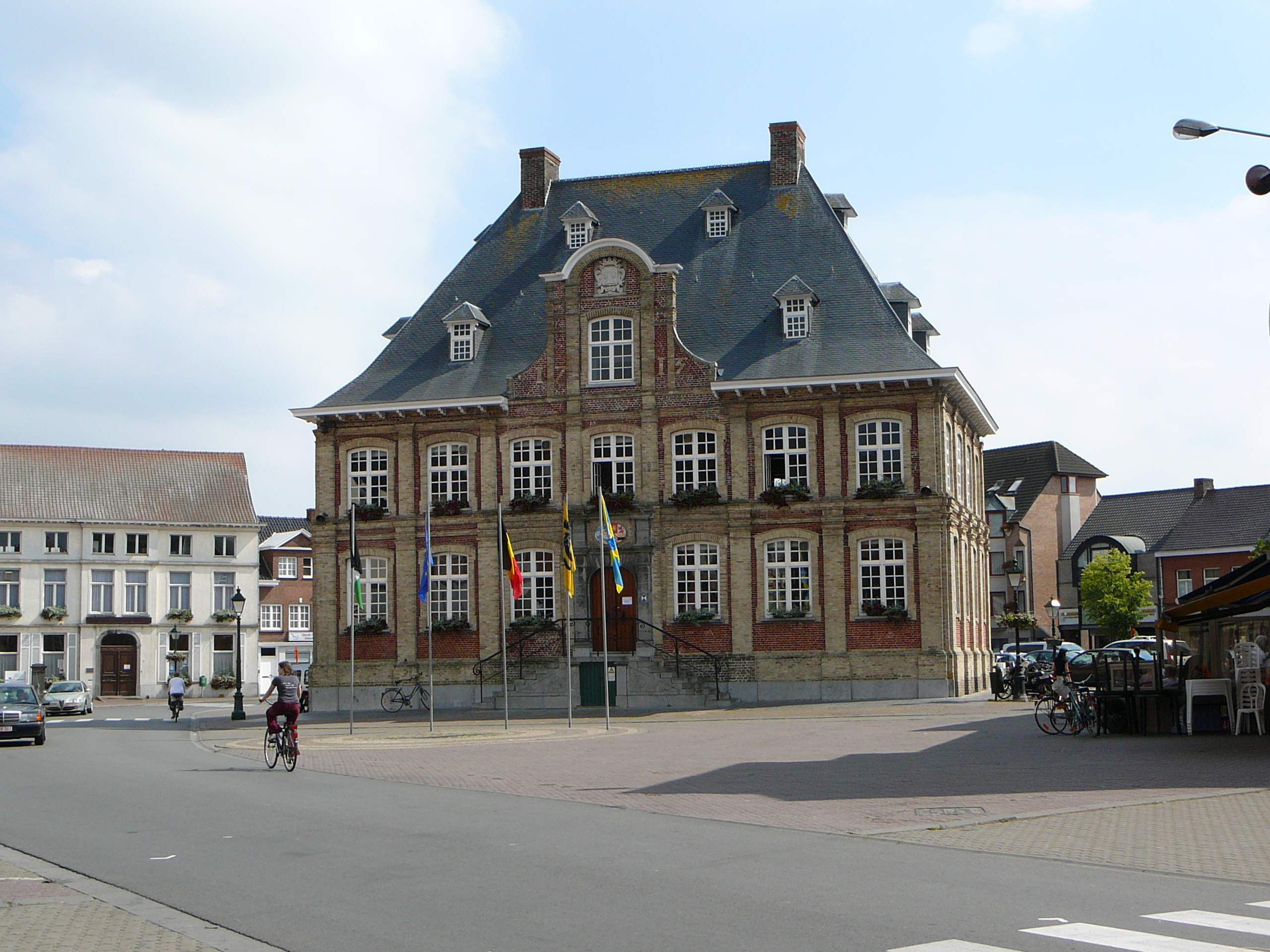 Stadhuis Torhout